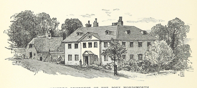 Alfoxton or Alfoxden House, Holford, Somerset, UK. Once the home of William wordsworth